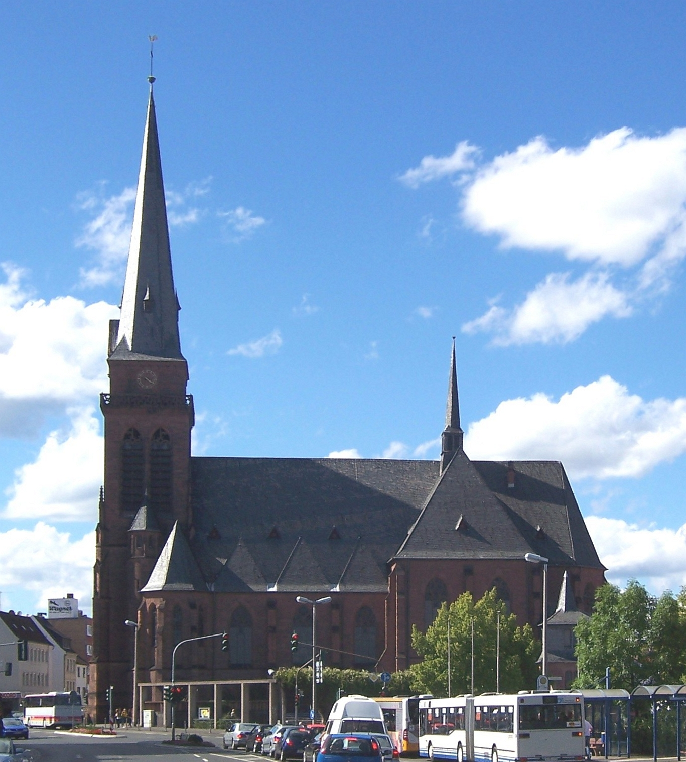 Kreuzkirche (Church of the Holy Cross) at the city centre of Bad Kreuznach